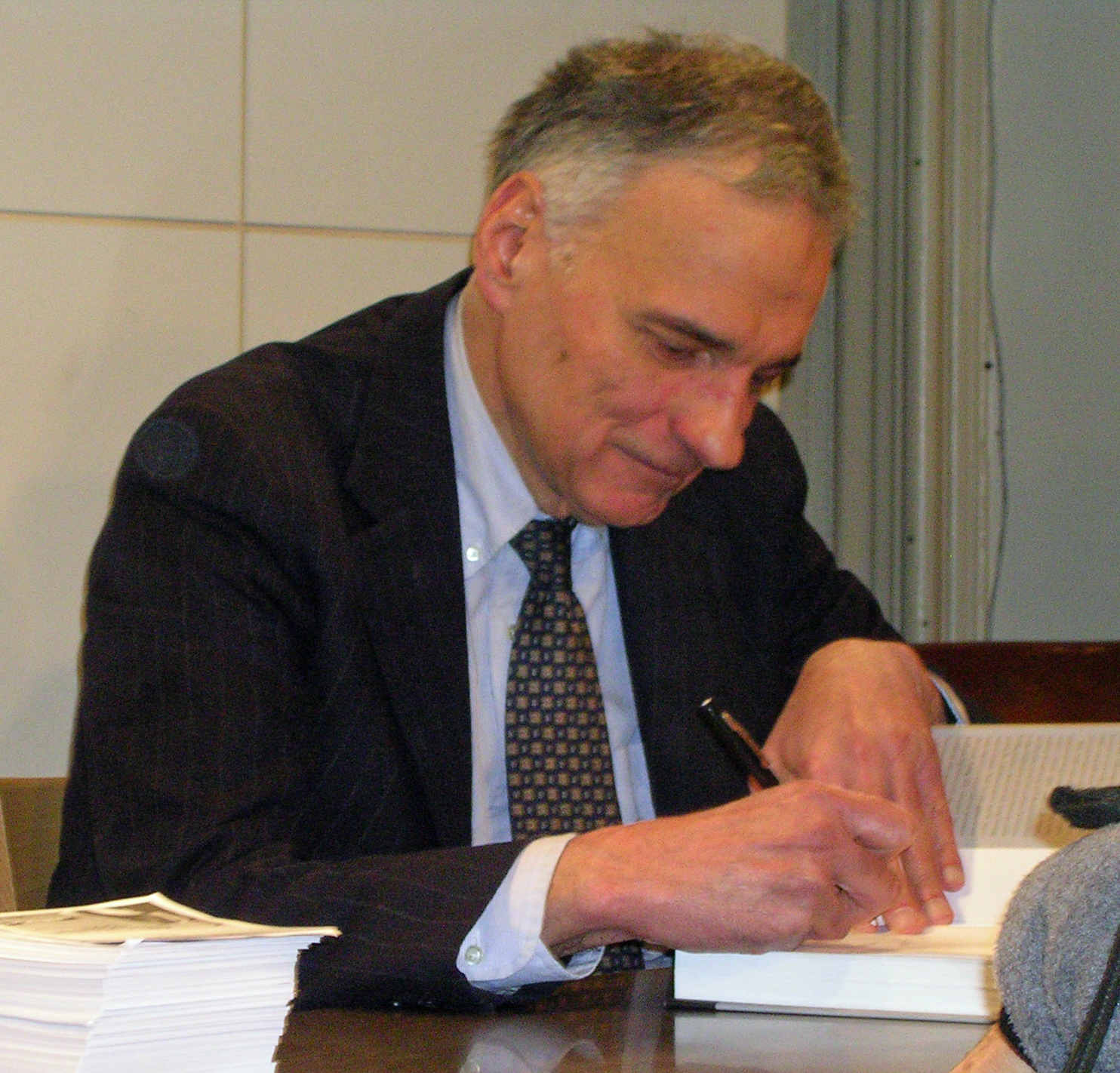 Ralph Nader signing books at Barnes & Noble Union Square, New York City.